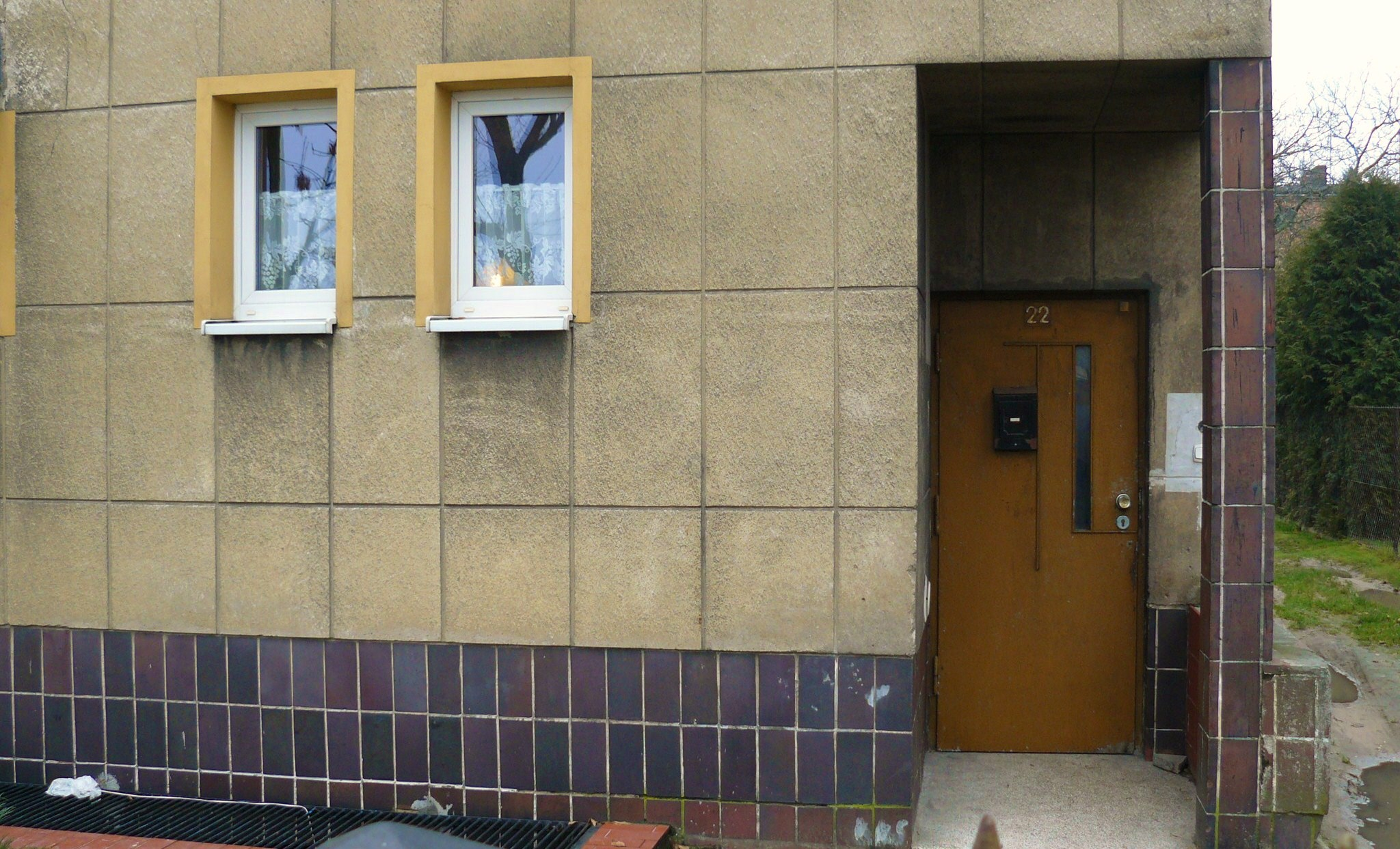 Modern Houses, Poznan, Promienista Street, 1937-1939, detail.